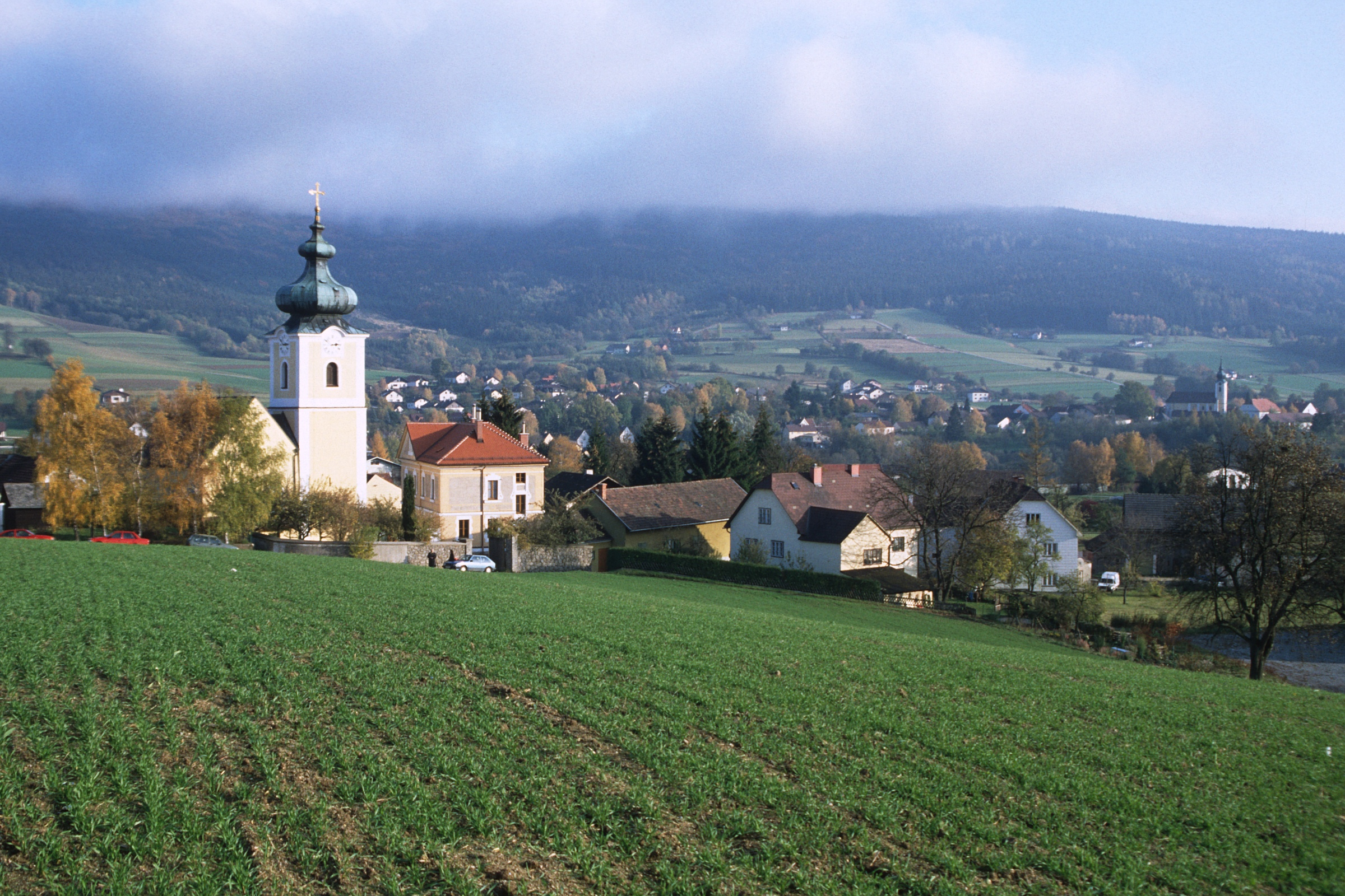 Ysper village in Lower Austria